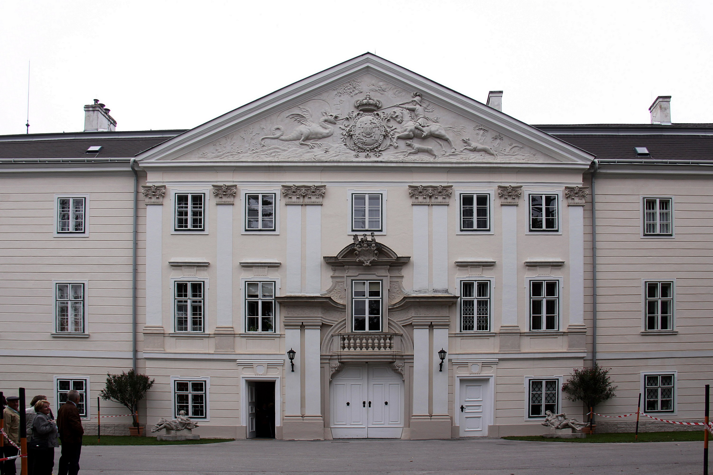 Schwarzau am Steinfeld – former Castle Schwarzau am Steinfeld, now Prison Schwarzau